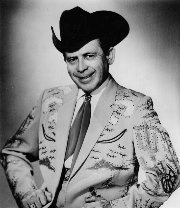 Photo of Little Jimmy Dickens.